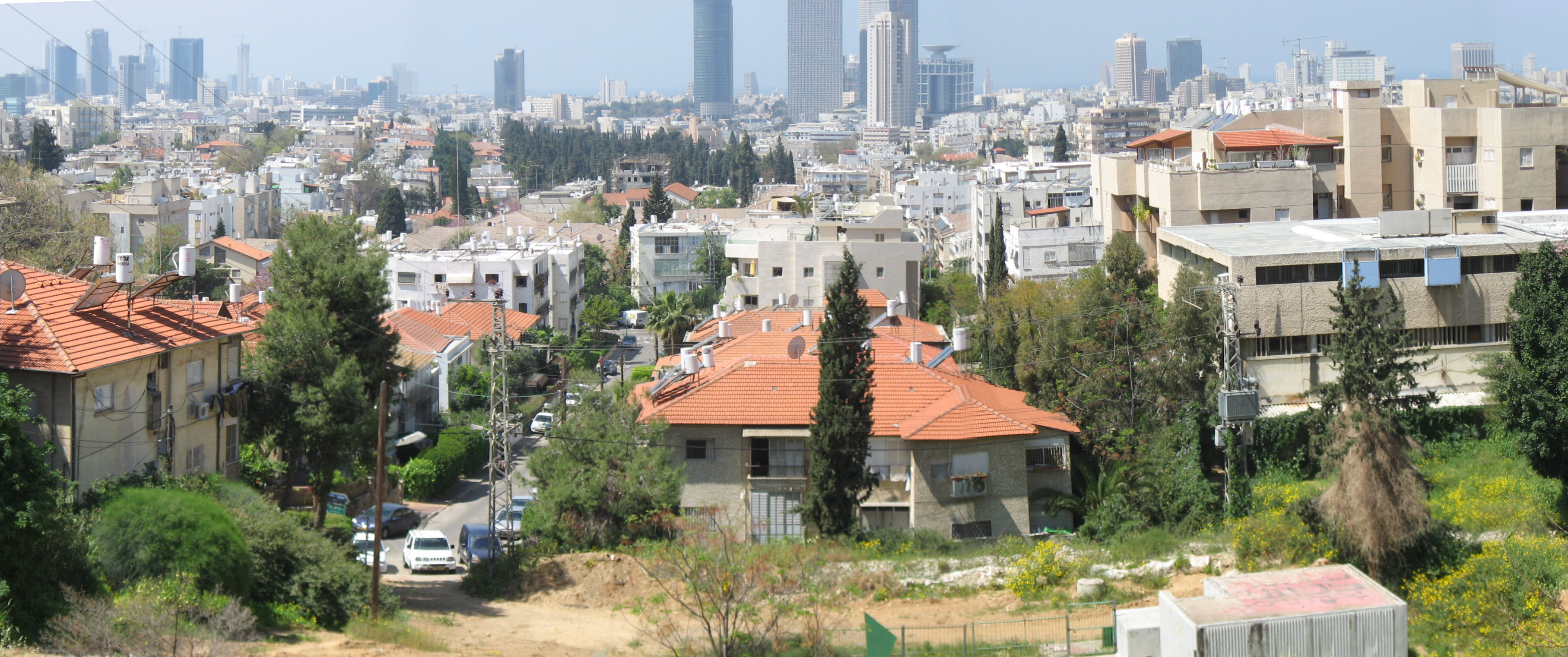 Panoramic view of the city of Giv'atayim, Israel, photographed looking west from Koslovsky Hill. The skyscrapers of Tel Aviv are in the background.